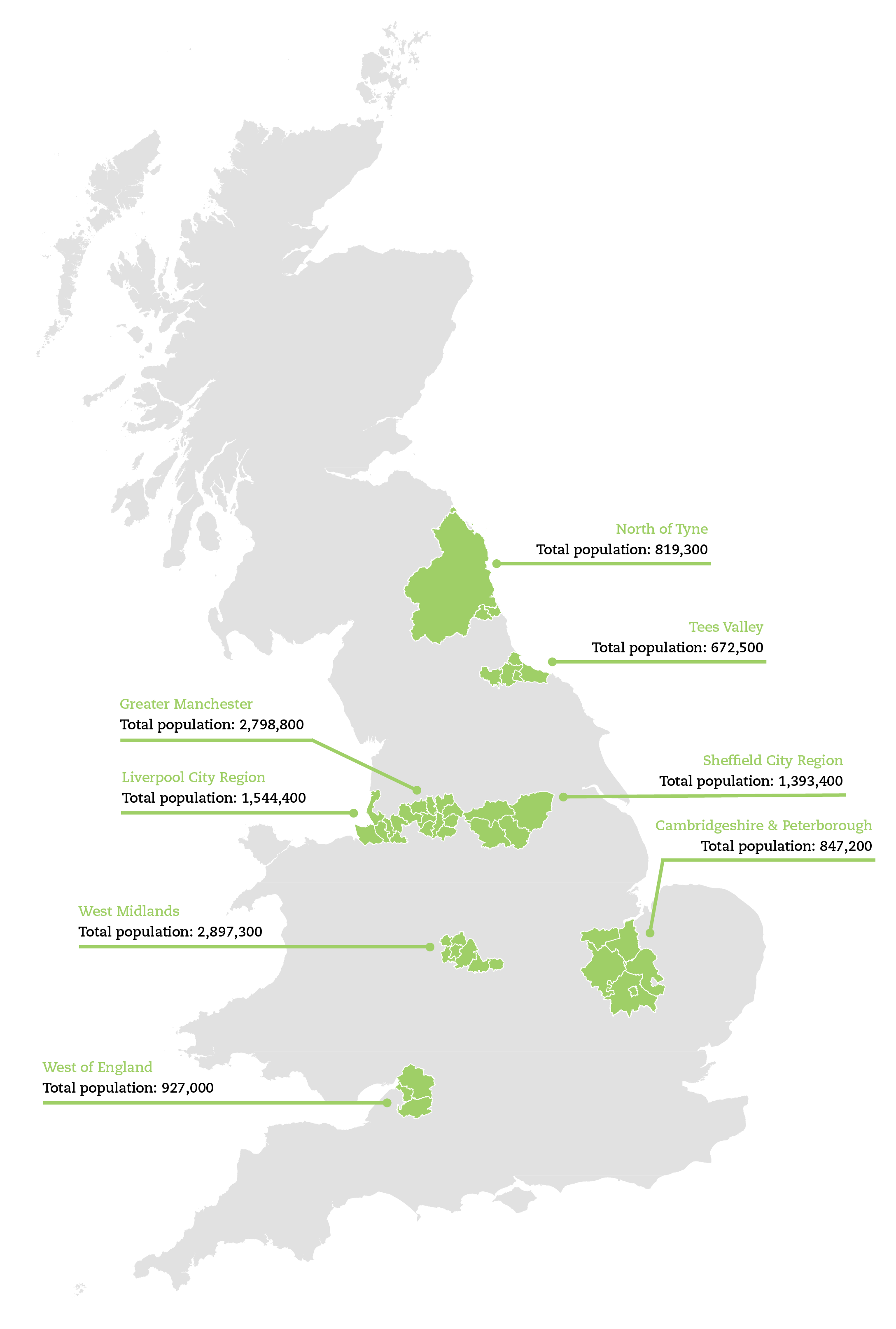 Cities with metro mayors in England.